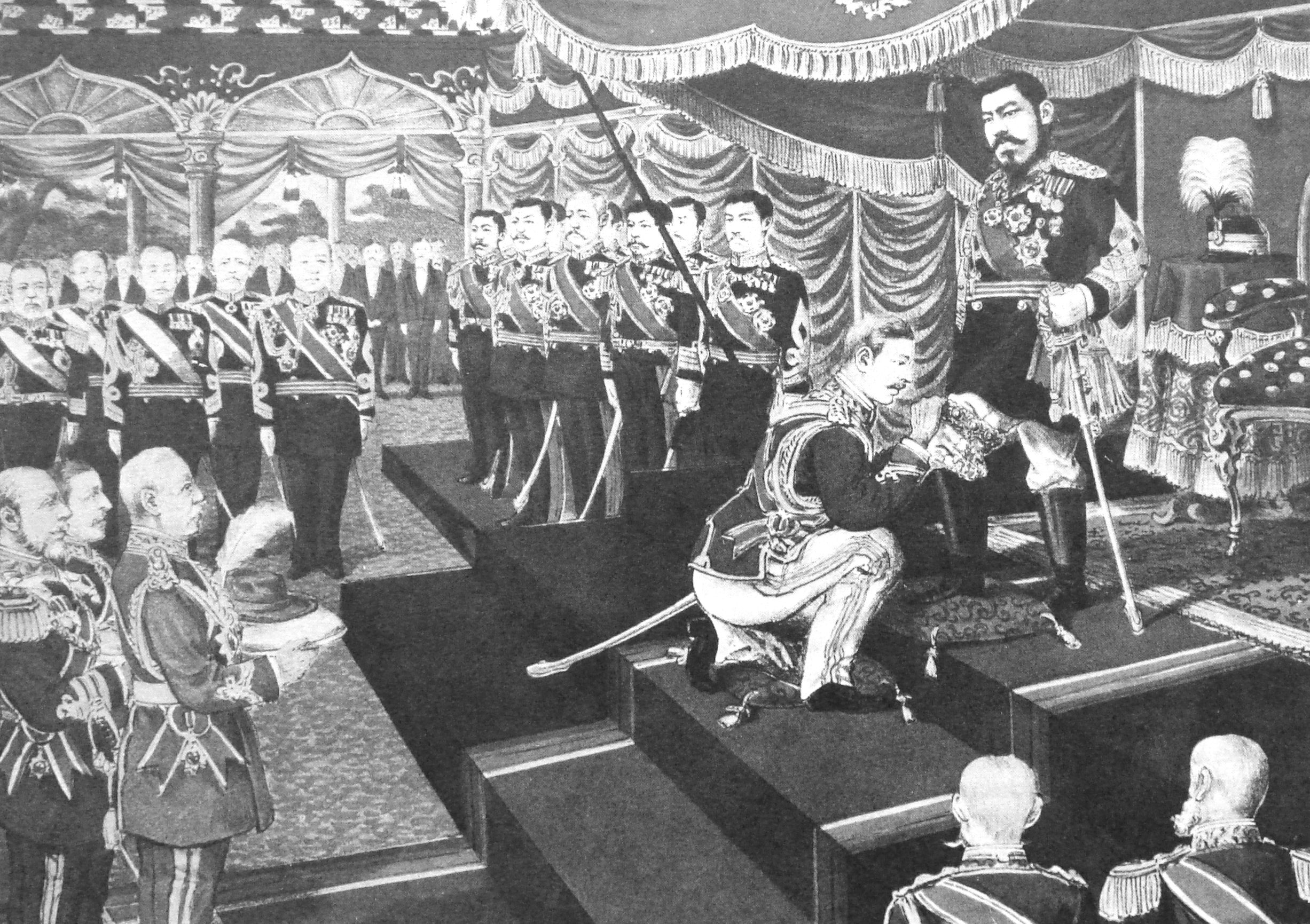 The Meiji Emperor receiving the Order of the Garter from Prince Arthur of Connaught in 1906, as a consequence of the Anglo-Japanese Alliance.